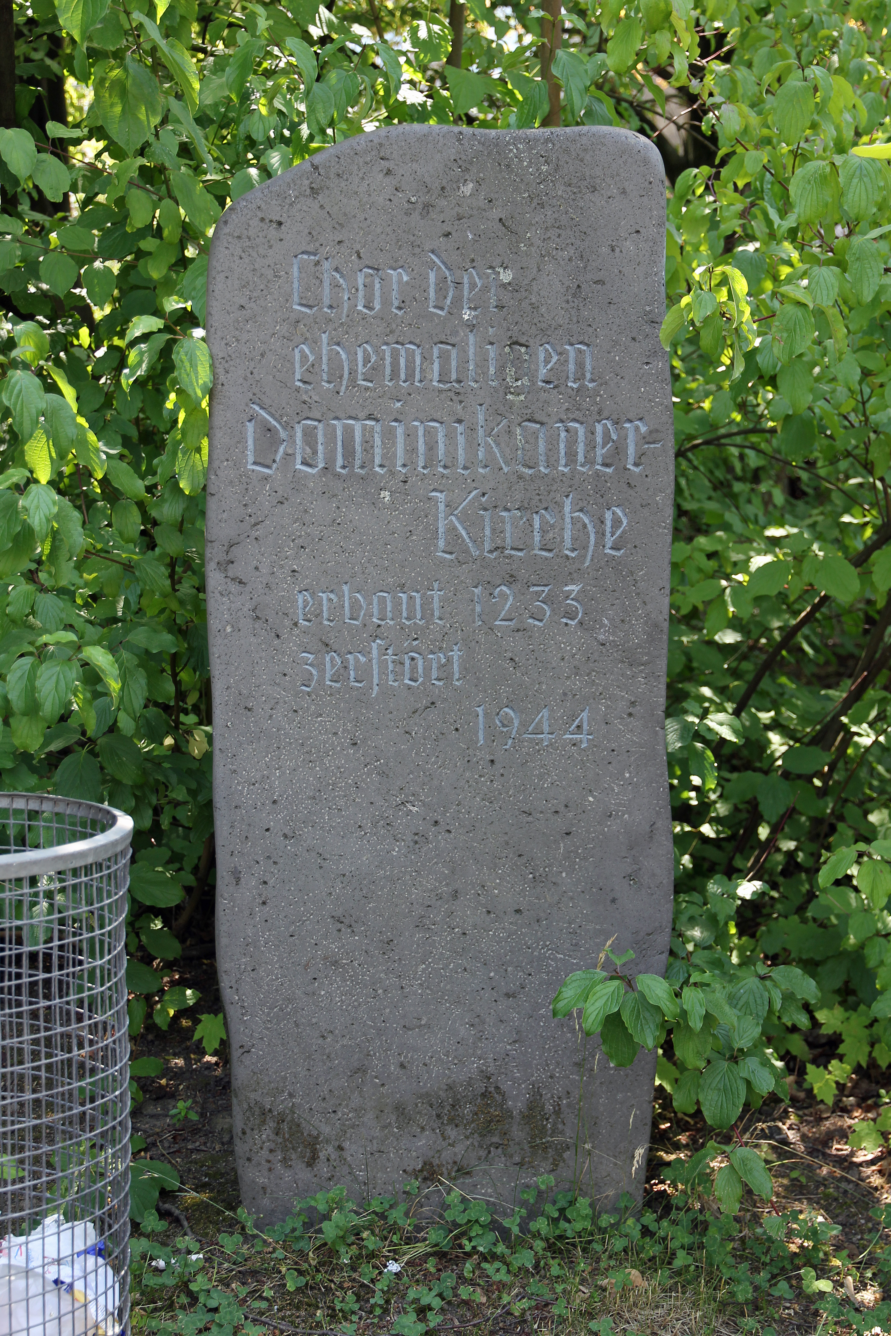 Memorial stone in Koblenz